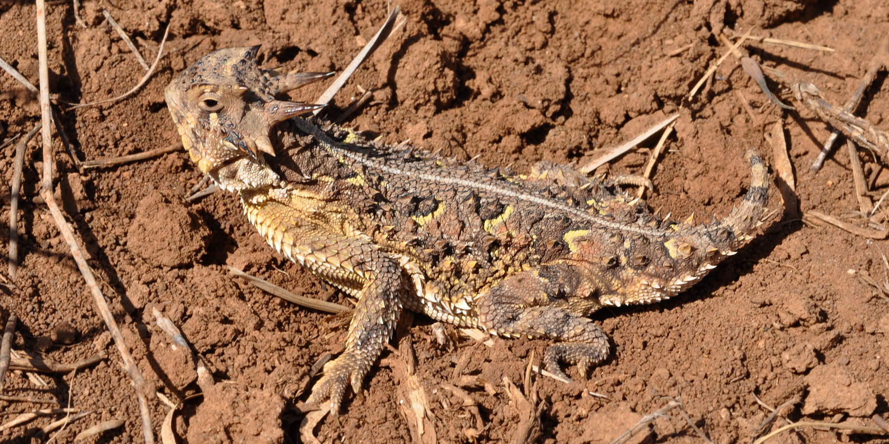 Texas horned lizard (Phrynosoma cornutum), Armstrong County, Texas, USA. This lizard was photographed in the field on the natural soil where it was found, on 28 April 2013by William L. Farr